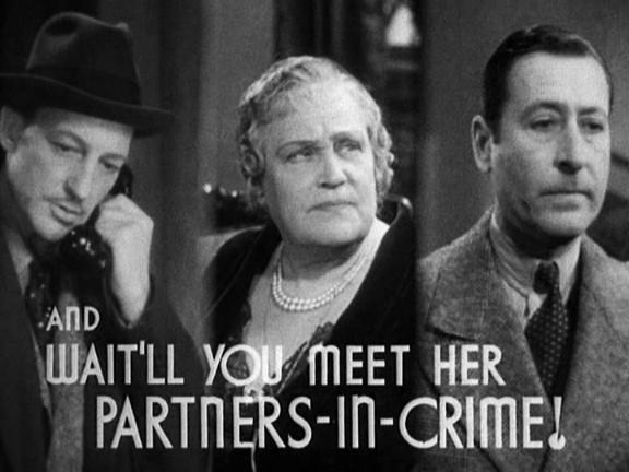 Frame from public domain trailer for Warner Bros. 1936 film Satan Met a Lady showing Warren William, Alison Skipworth and Arthur Treacher with type: "Partners in Crime".